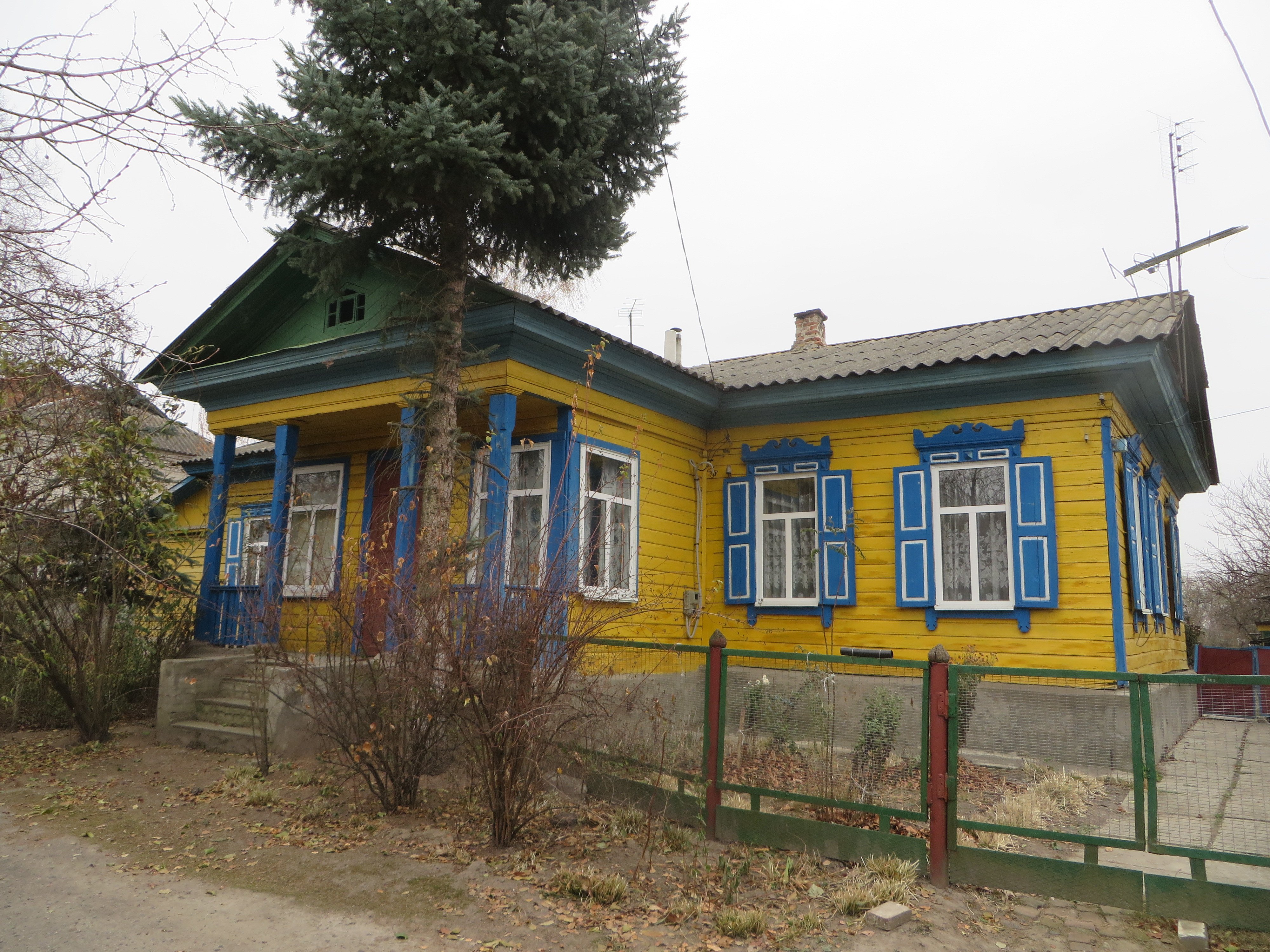 House in v. Stol'ne, Mena Raion, Chernihiv Oblast, Ukraine